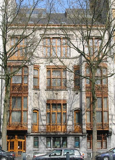 Hotel Solvay, Avenue Louise 224, Brussels, Belgium